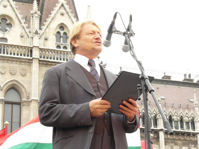 Géza Hegedűs D.